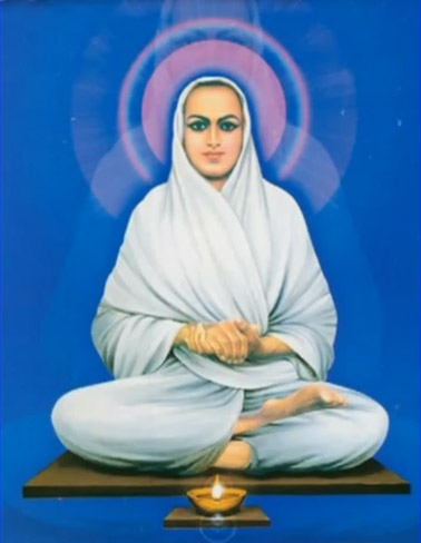 Vallalar Drawing